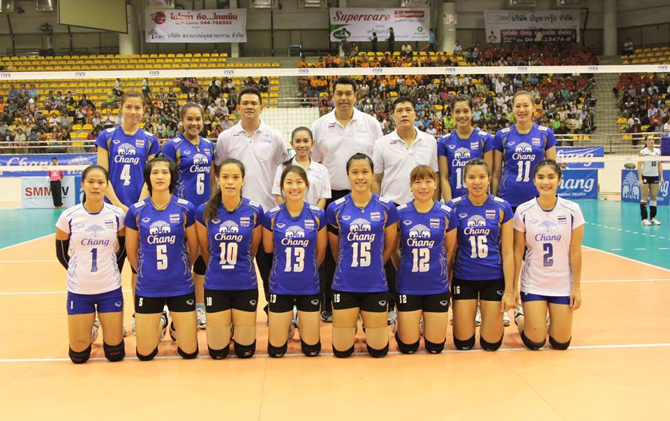 นักวอลเลย์บอลหญิงไทยชุดแชมป์เอเชีย 2013